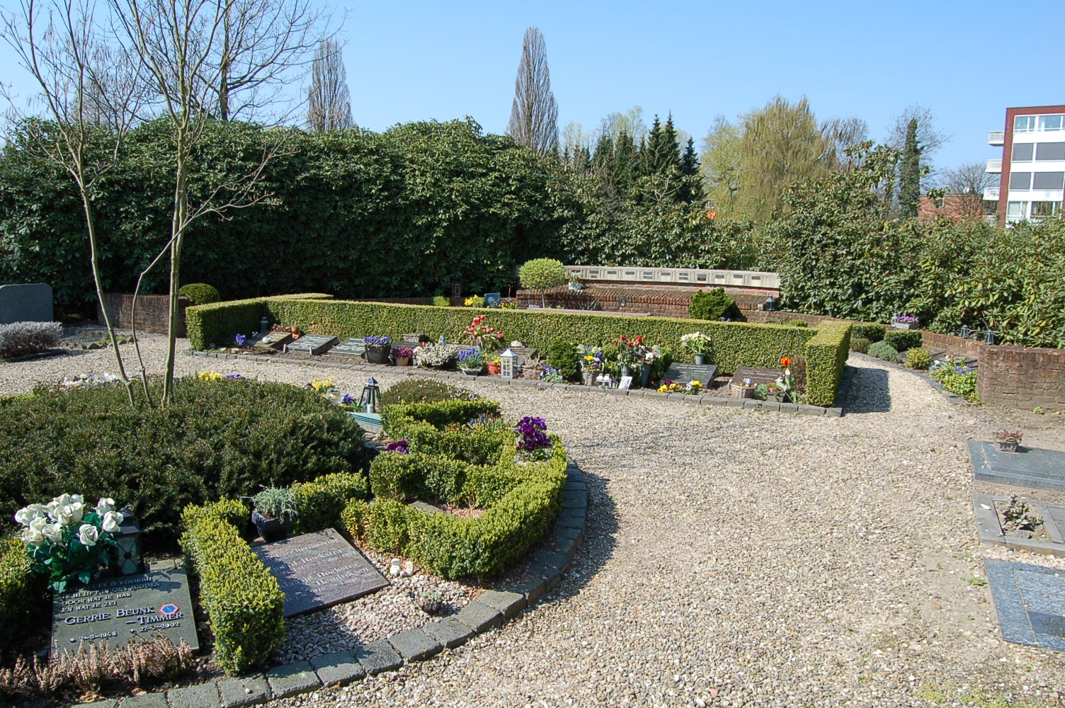 Begraaf- en gedenkpark Oldenzaalsestraat (Hengelo, OV)